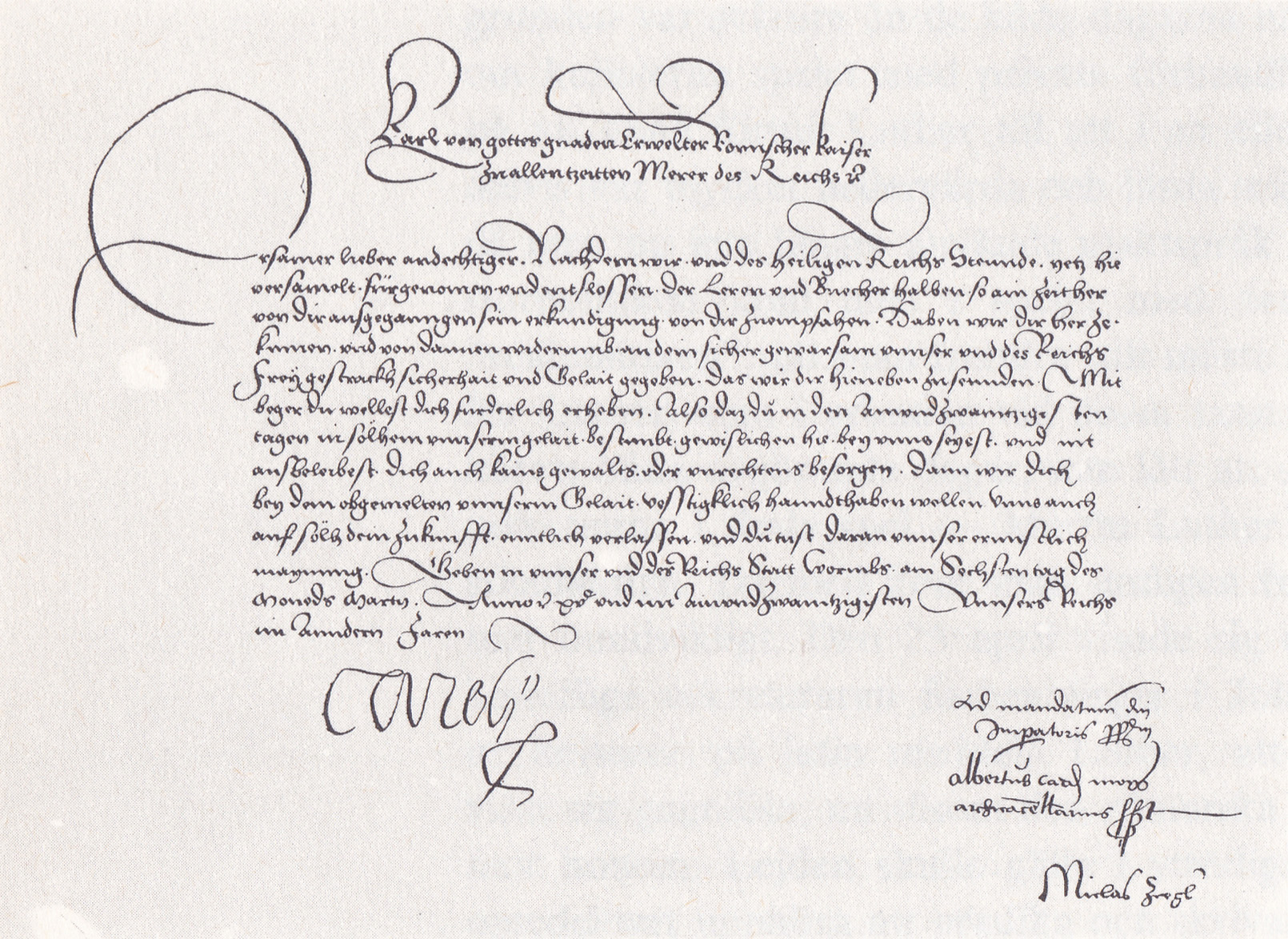 Karl V:s calling of Luther to Worms.